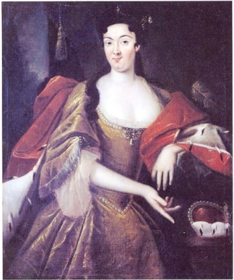 Elisabeth Albertine of Anhalt-Bernburg (1693-1774), Princess of Schwarzburg-Sonderhausen